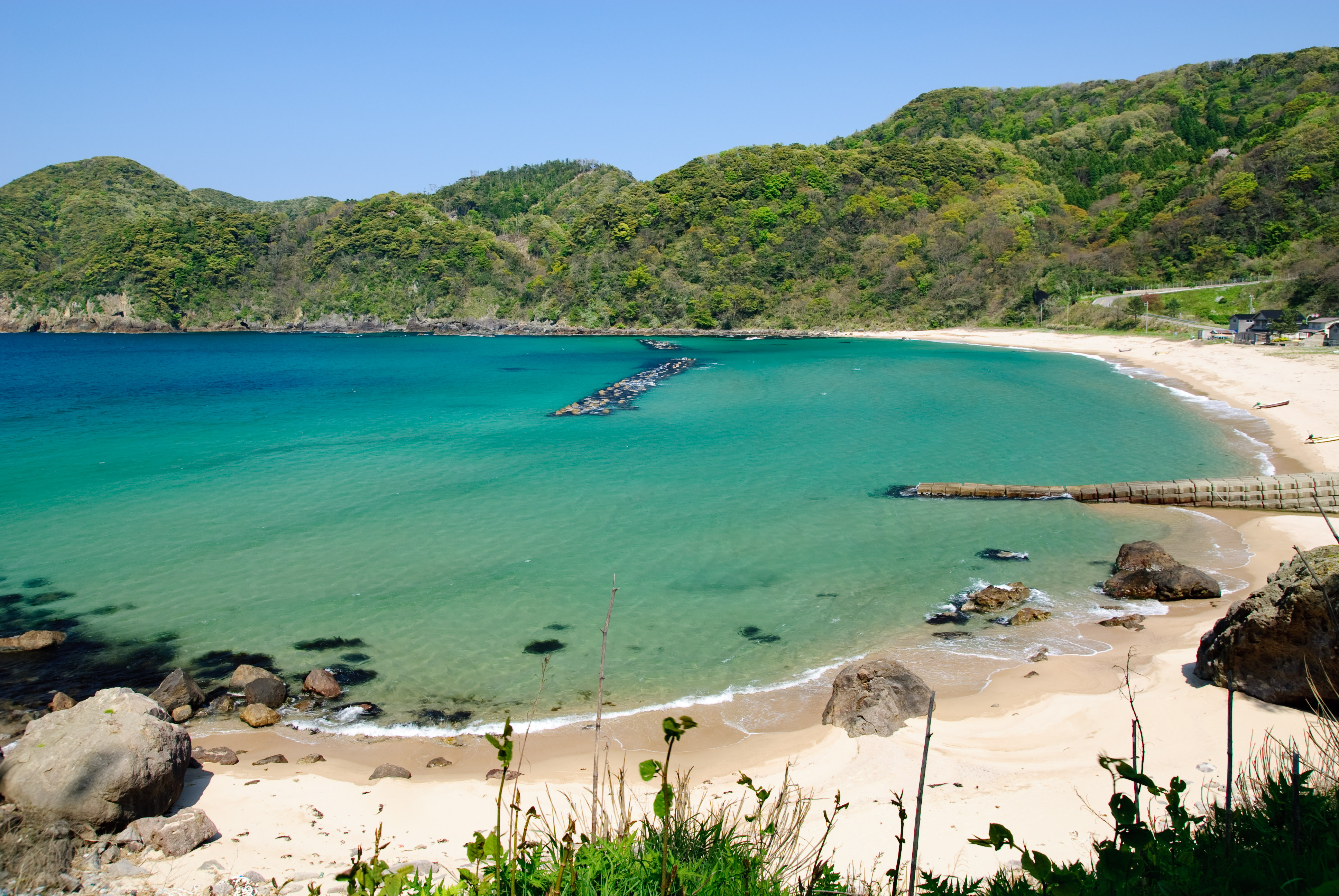 Yasugihama Beach in Kami ,Hyogo Prefecture,Japan.